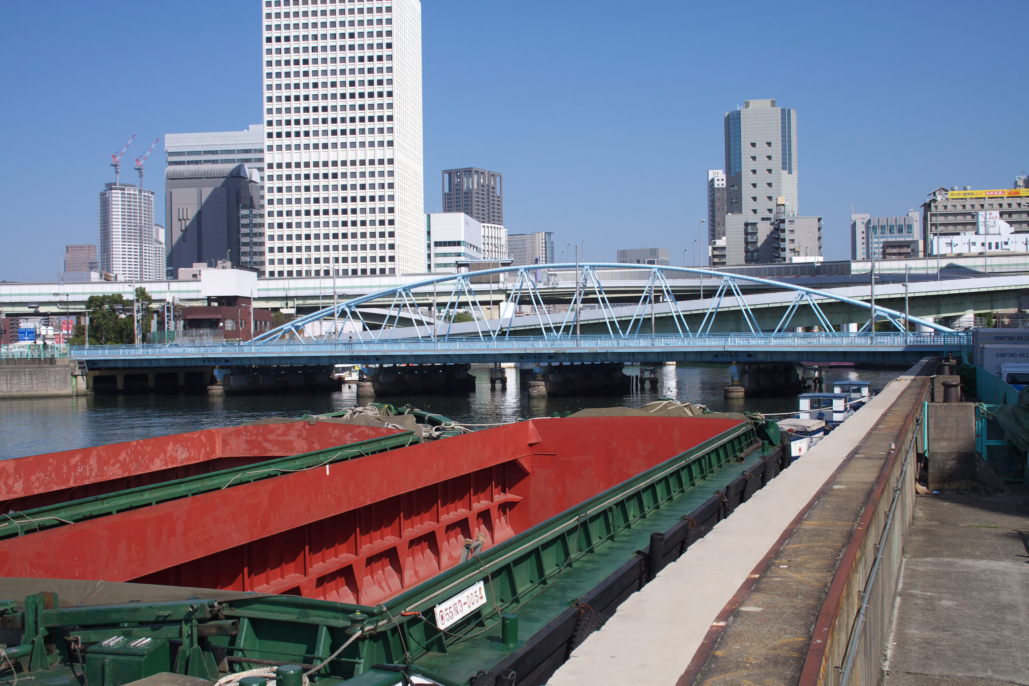 Hatatekurabashi (Osaka, JAPAN)